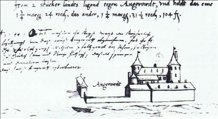 Ancient graphic of Haus Angerort in Duisburg-Hüttenheim (Germany)